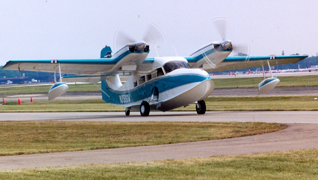 N350GW is a SCAN Type 30 serial no. 4, a license-built copy of a Grumman G-44A Widgeon actually built in Rochelle France by Societe de Construction Aero-Navale. It is also modified in accordance with the "Magnum" conversion which installed 350 hp Lycoming TIO-540-J2BD turbocharged engines.